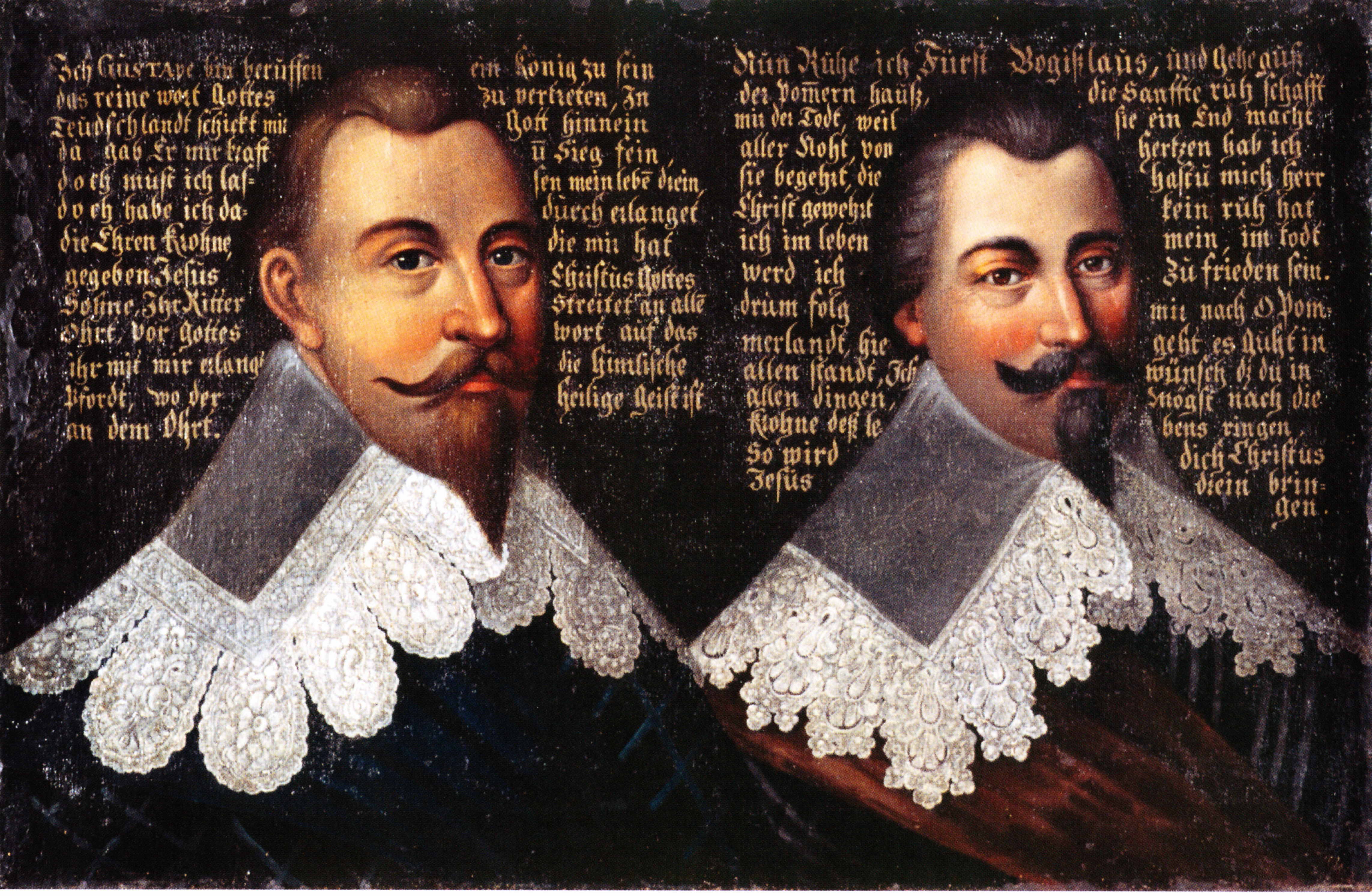 Double portrait of Gustav II Adolf of Sweden (left) and Bogislaw XIV, Duke of Pomerania (right)